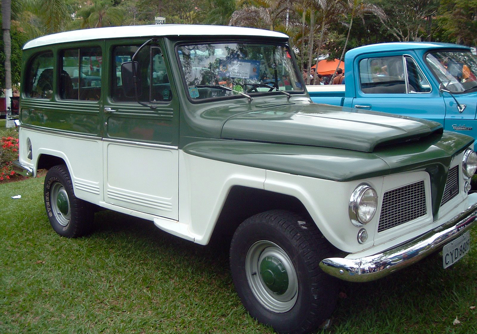 1969-1974 Ford F75 Rural (Willys-based)